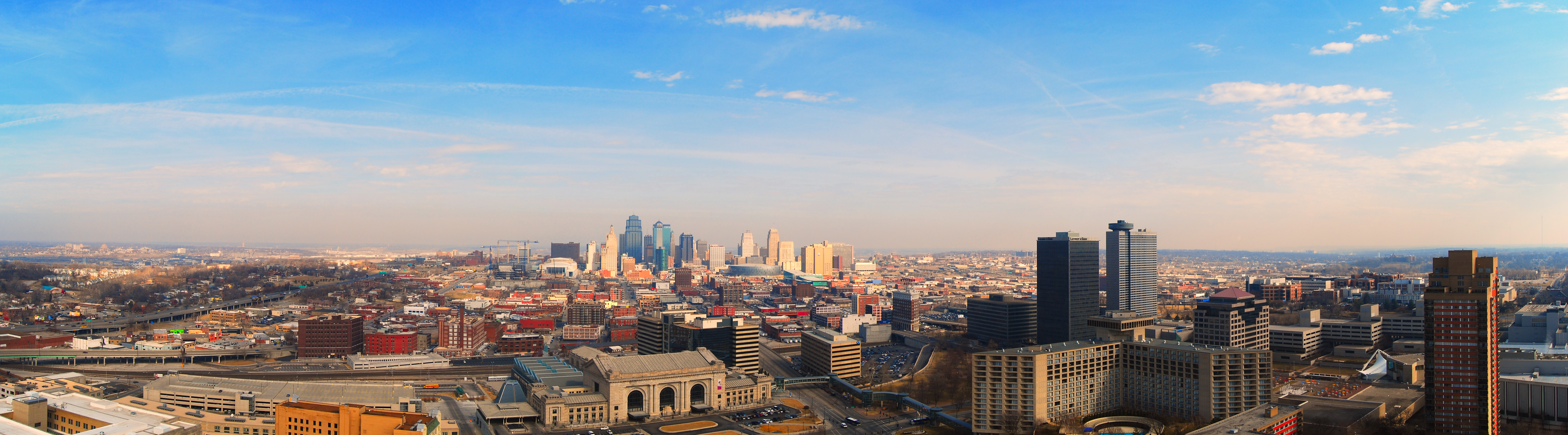 Panoramic view from the top of Liberty Memorial looking North to downtown.